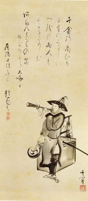 Ameuri-zu by Kiitsu Suzuki